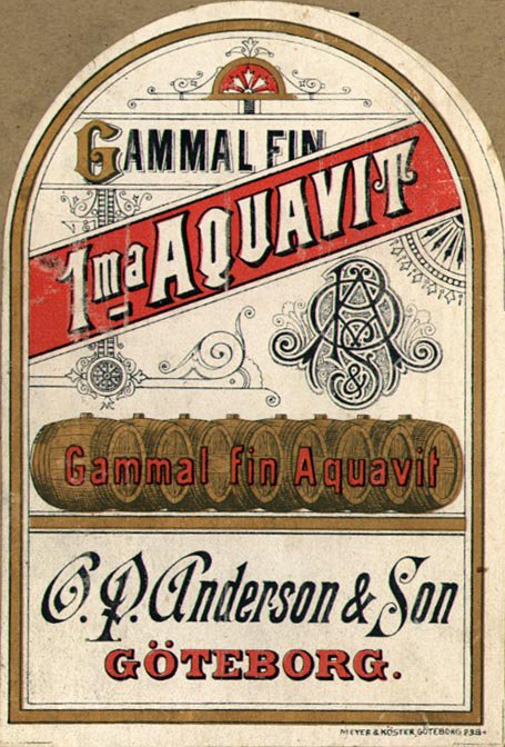 The very first version of labels to the famous O.P. Anderson Aquavit 1891